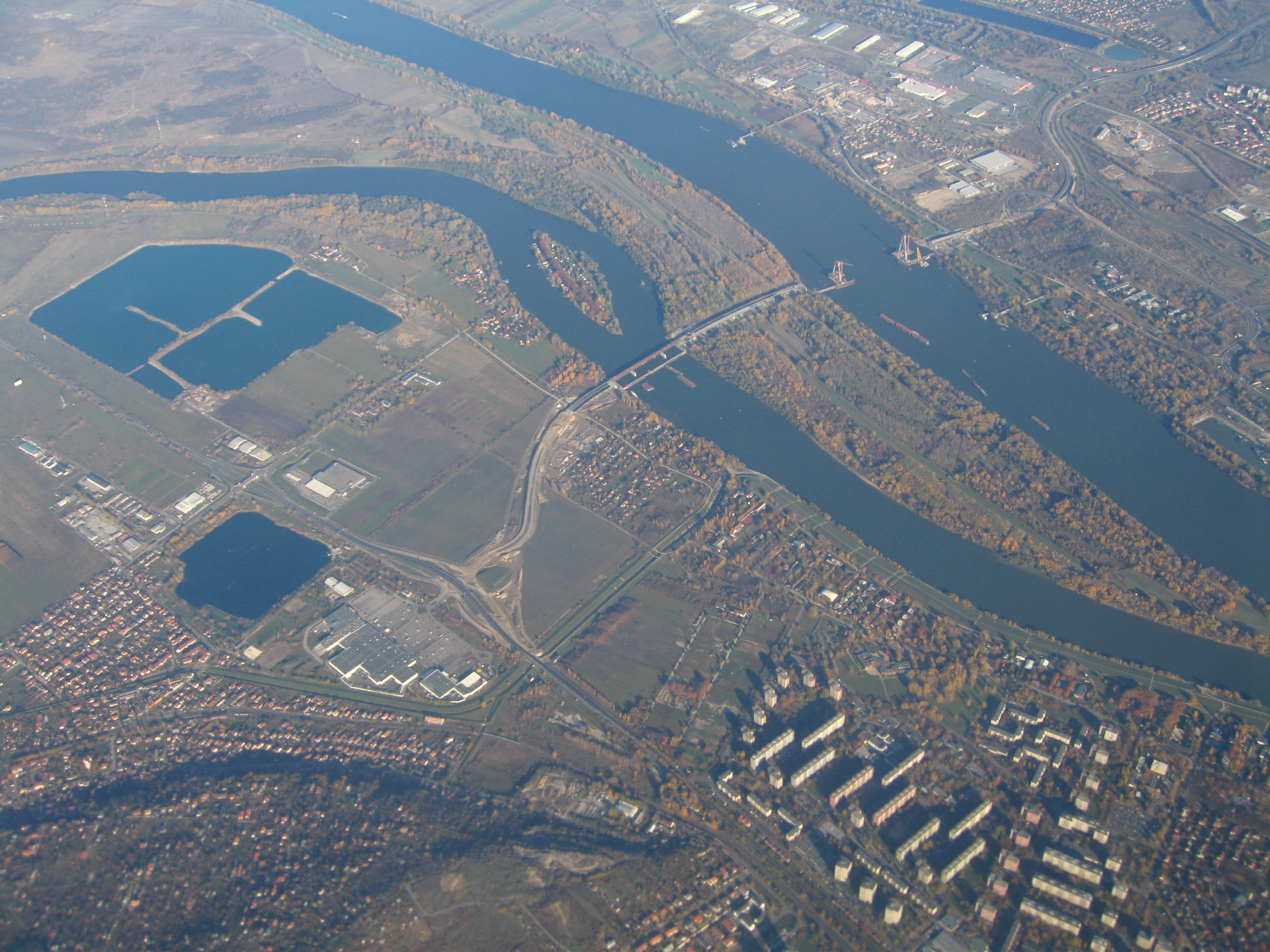 Megyeri Bridge under construction. The southern tip of Szentendre Island is crossed by the bridge between the two channels of the Danube, whilst the smaller Lupa Island can be seen to the left of the nearer bridge span.